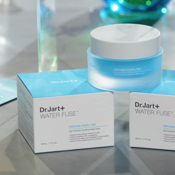 Dr. Jart's Water Fuse line on display at a brand presentation by Sephora in Mexico City, 2017. Products are strategically placed among beakers and flasks.